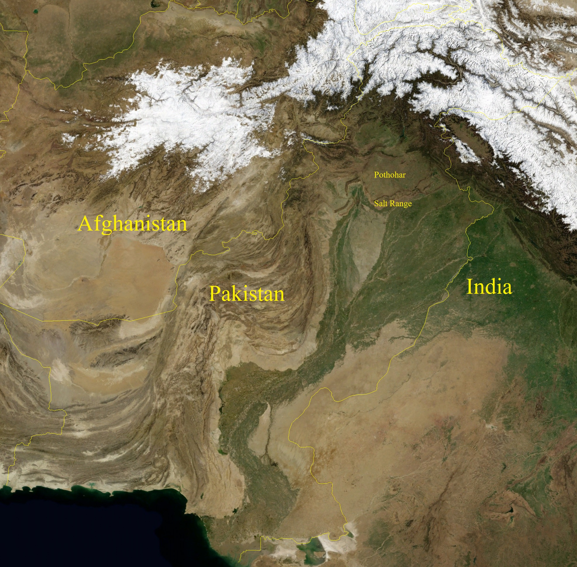 NASA photo of Pakistan-North India-Afghanistan region with Pothohar Plateau and Salt Range labeled.